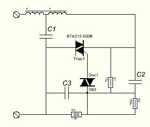 Ignitor wiring for 50-700W